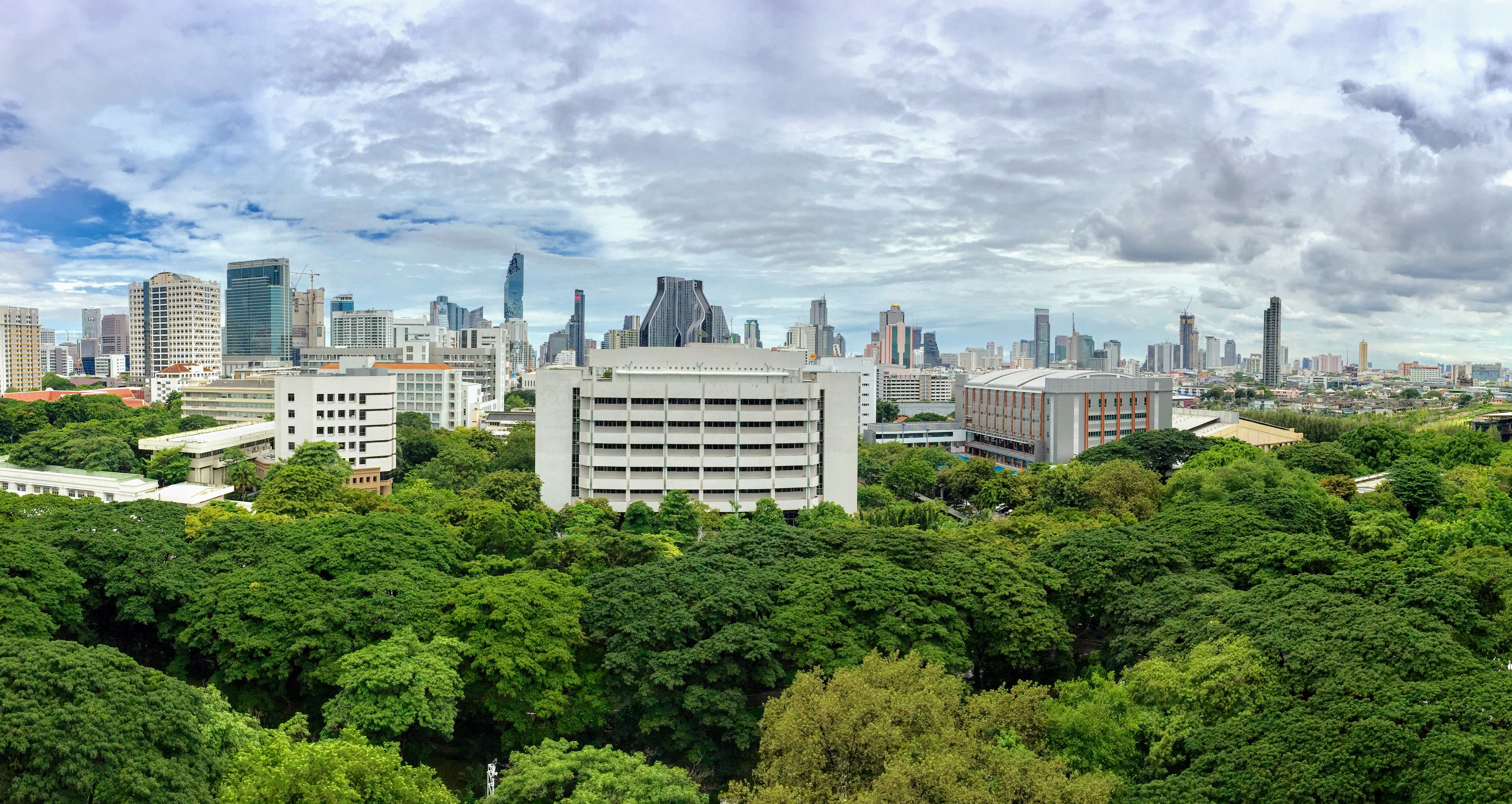 Area of Chulalongkorn University on the west side of Phaya Thai Road, Bangkok, Thailand.